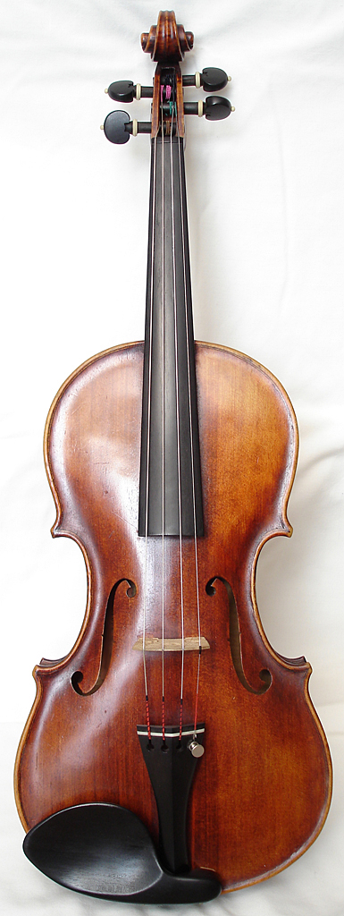 Violin made by Alvah M. Batchelder of Frankfort, Maine, USA, in 1928